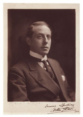 Portrait of Arthur Joseph Davis